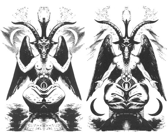 Baphomet in poses of the twin brothers Cautes and Cautopates from the Mithraic mysteries